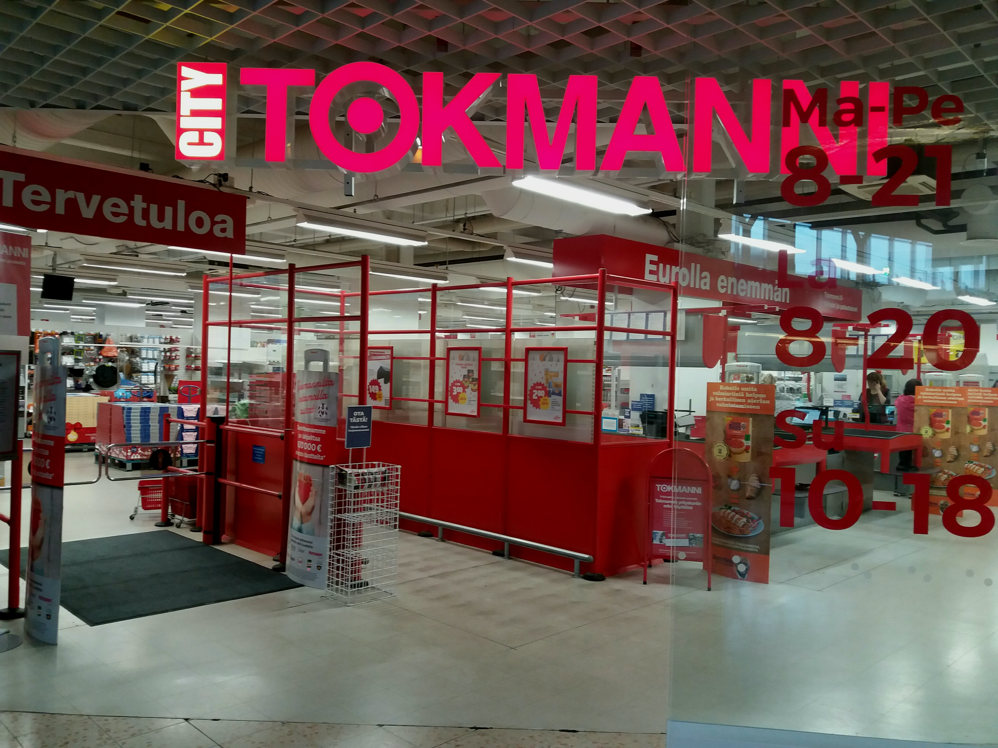 Tokmanni store in Arabia shopping center in Helsinki